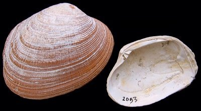 Tapes decussatus; Eemian fossil marine bivalved shell from the North Sea.